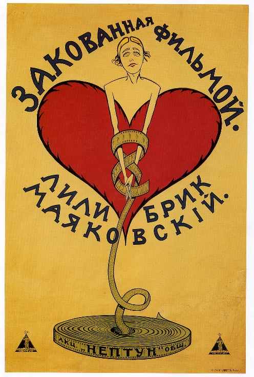 Poster for the film Zakovannaya filmoi